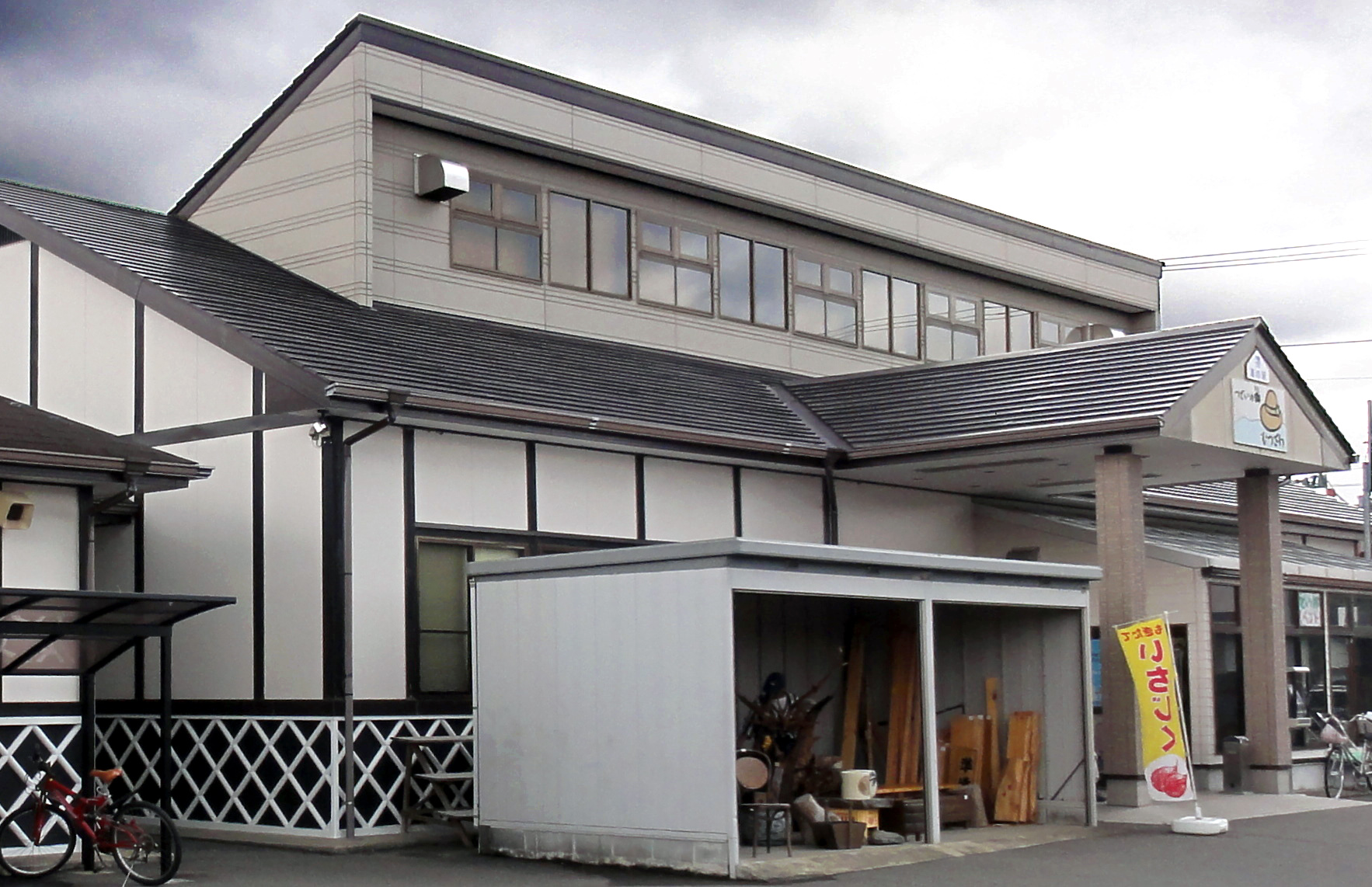 Road to station Tsudoi no sato Mutsuzawa,Chiba prefecture,Japan